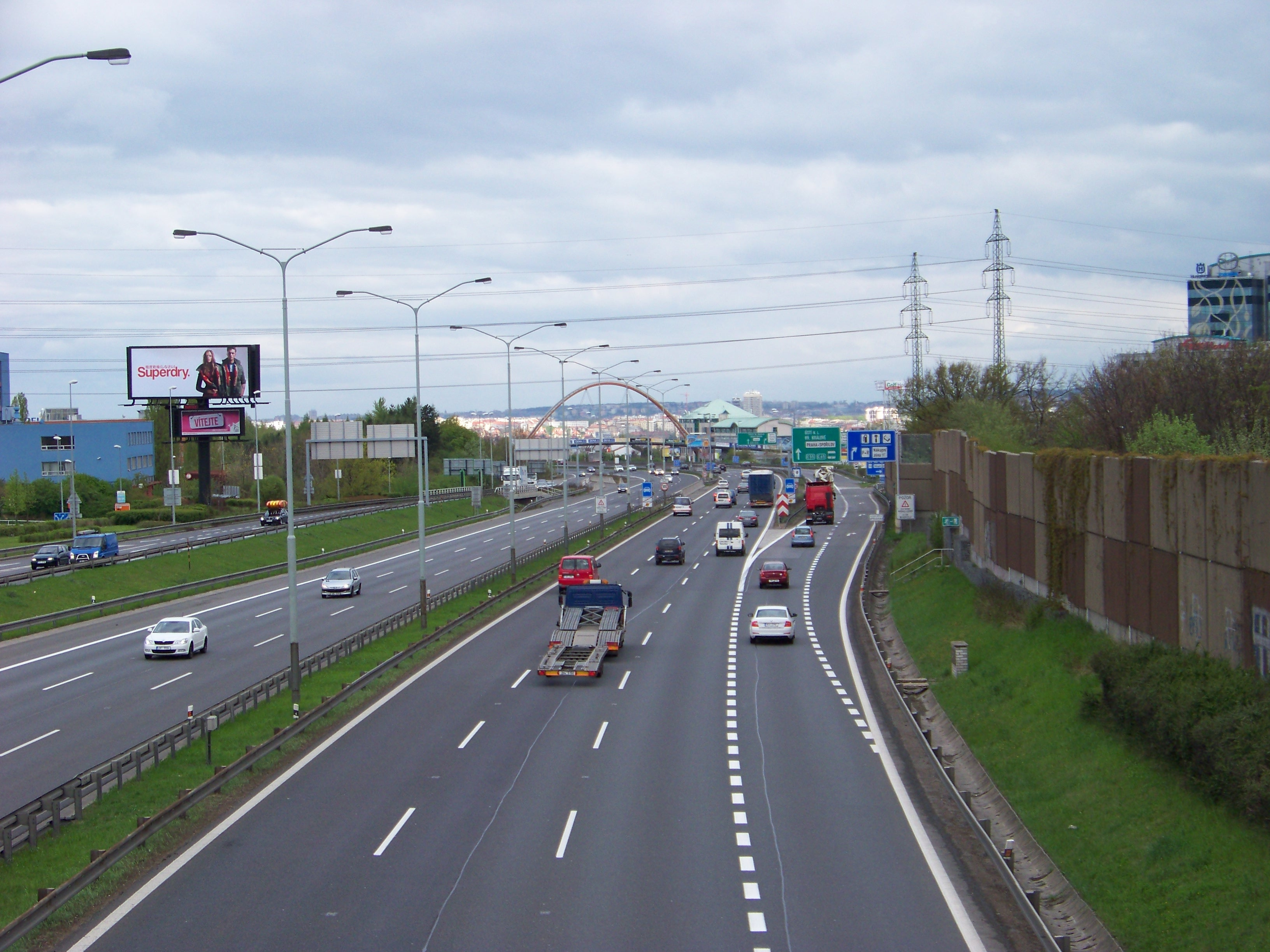 Prague-Chodov, Czech Republic. Brněnská street, D1 Highway, seen from the footbridge near K dubu street.